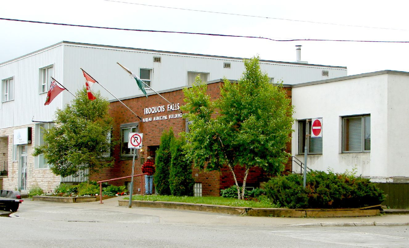 Municipal building of Iroquois Falls, Ontario, Canada